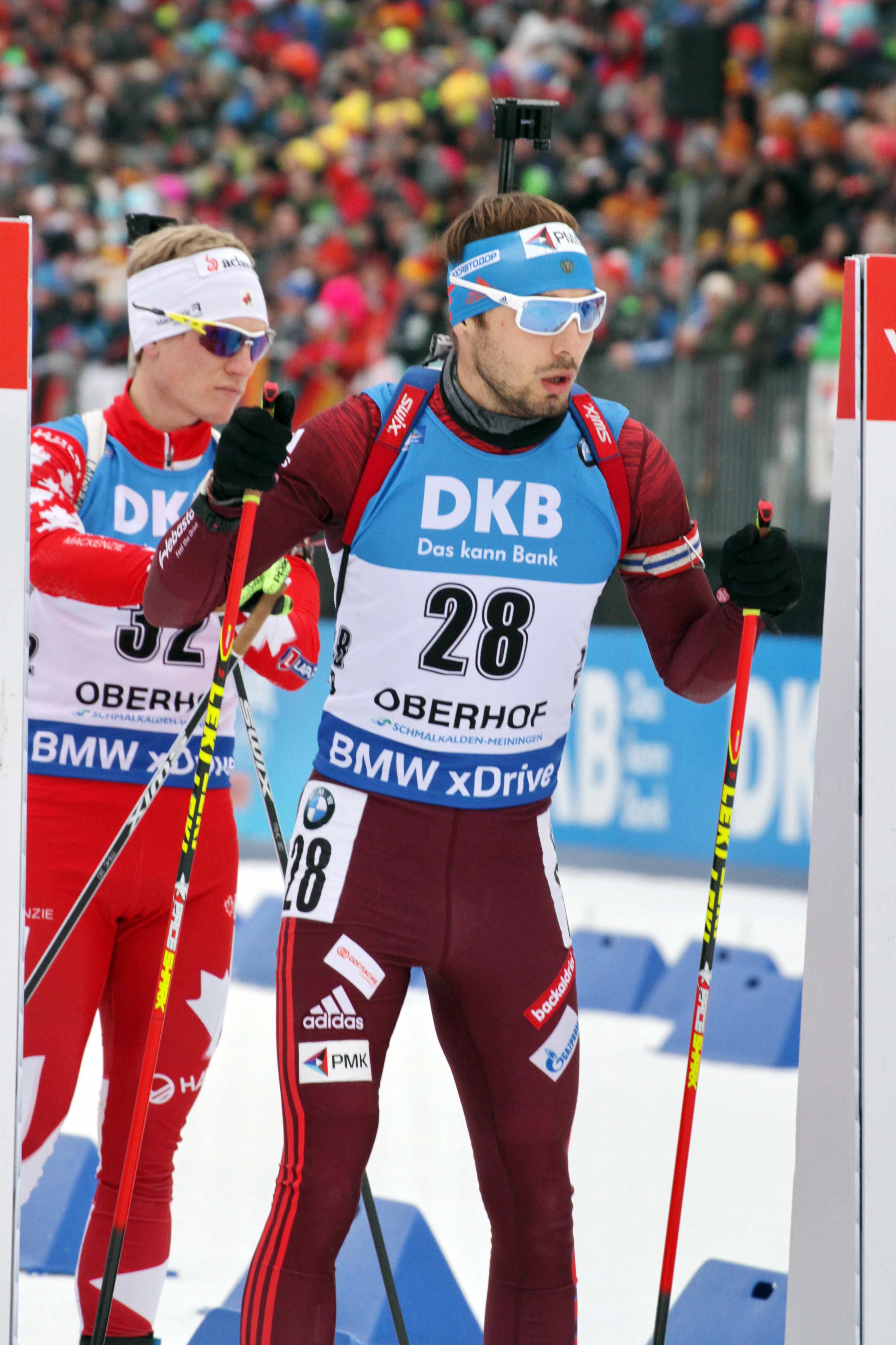 2018 Oberhof Biathlon World Cup - Pursuit Men